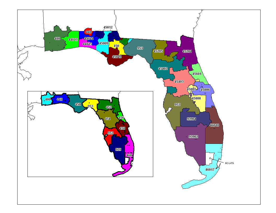 Map of the 5-digit LATA codes for the state of Florida (US). Created by Rarelibra 17:47, 24 July 2006 (UTC) using MapInfo Professional v8.5 for public domain use.